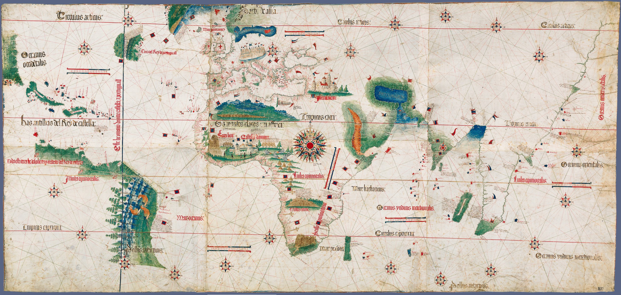 Image pasted from 27 detailed frames by using Adobe Photoshop. Frames to be found at